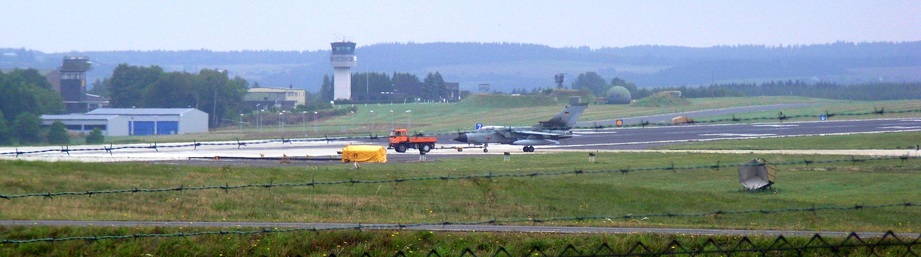 Tower and runway of the Büchel military airbase in germany, starting airplane.